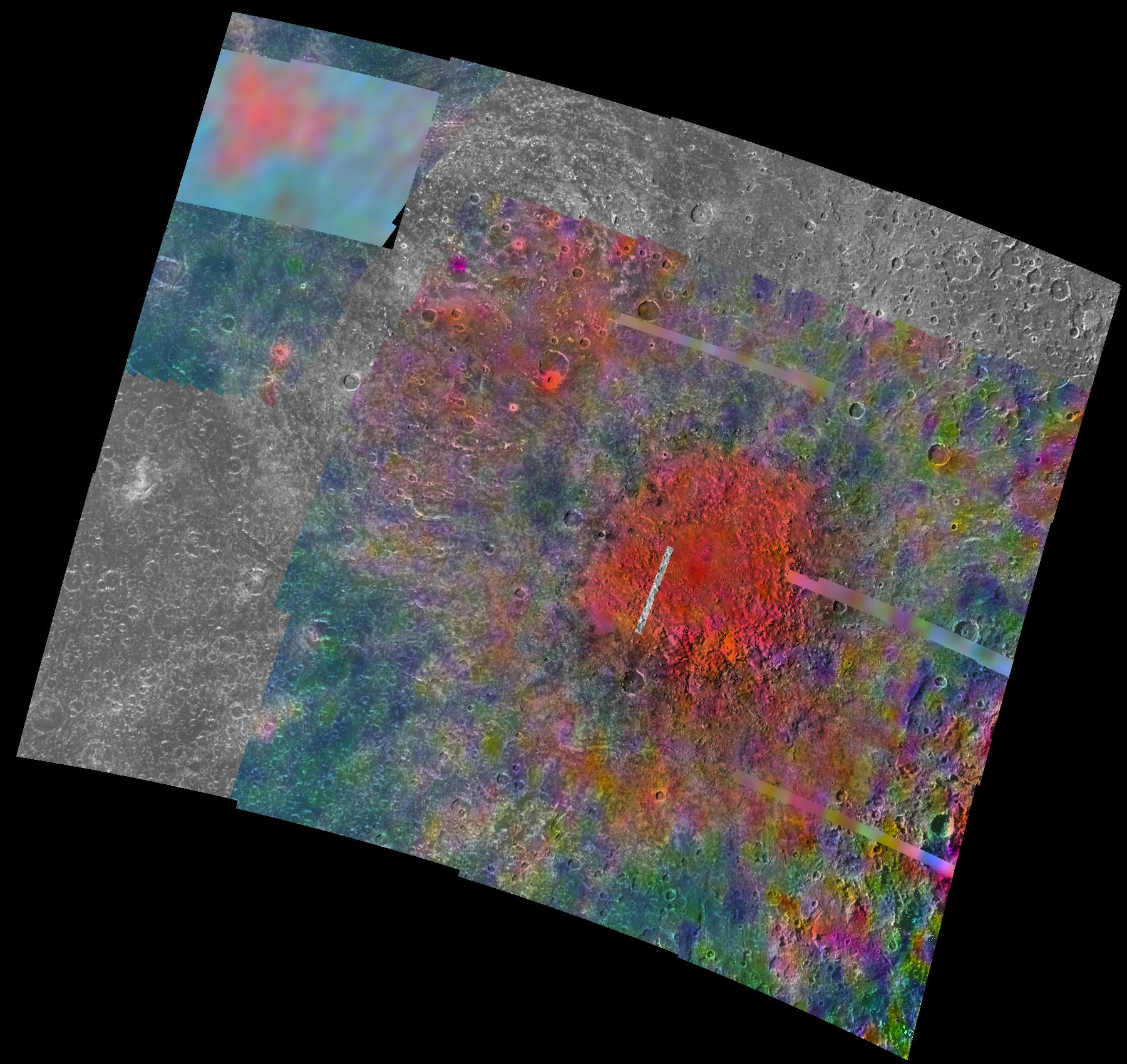 The composite near-infrared/visible image of Callisto. The red corresponds to the more ice rich surface. The blue—to the ice poor. The images were by Galileo spacecraft in 1997.